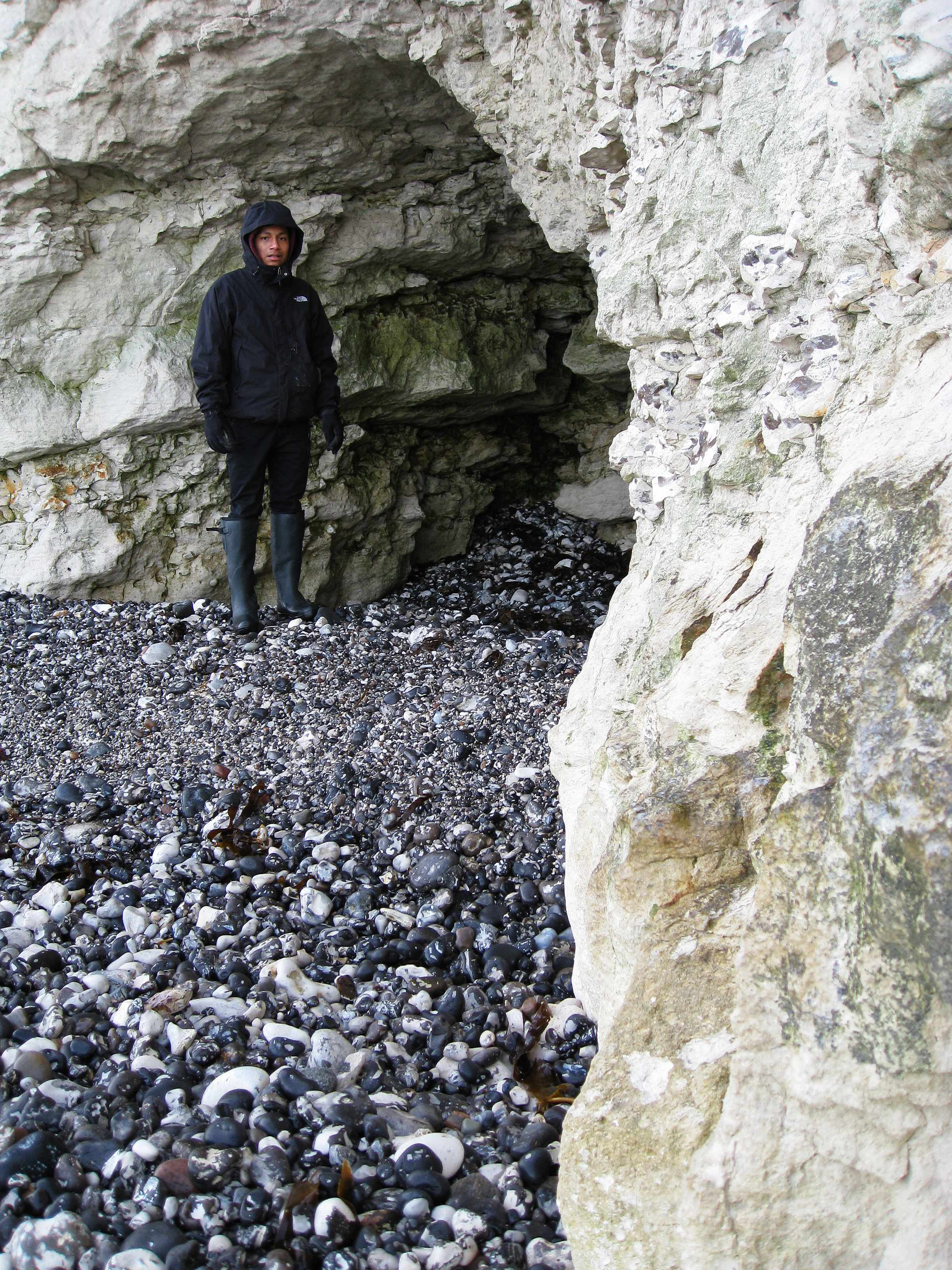 Sangstrup Klint